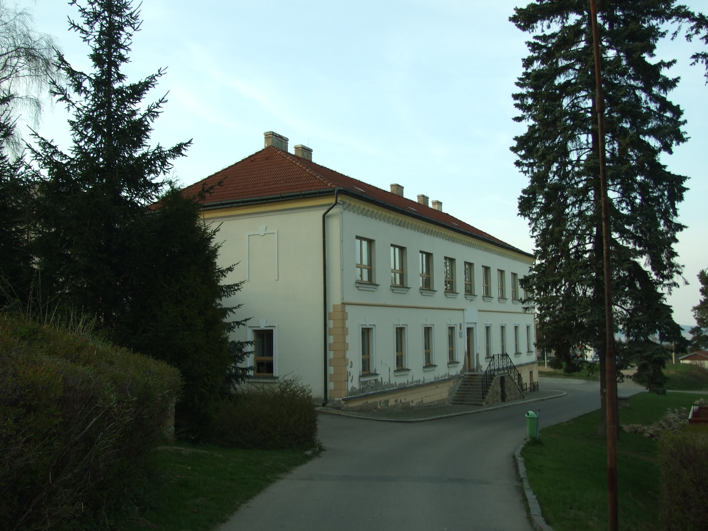 Elementary school in the town of Lipnice nad Sázavou, Vysočina Region